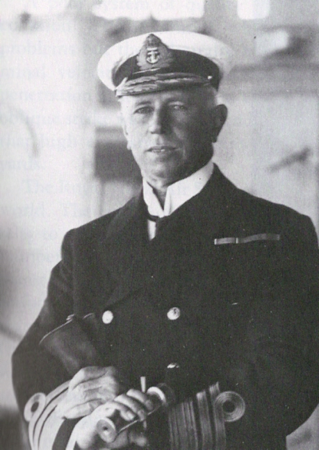 The British admiral George Callaghan (1852-1920)